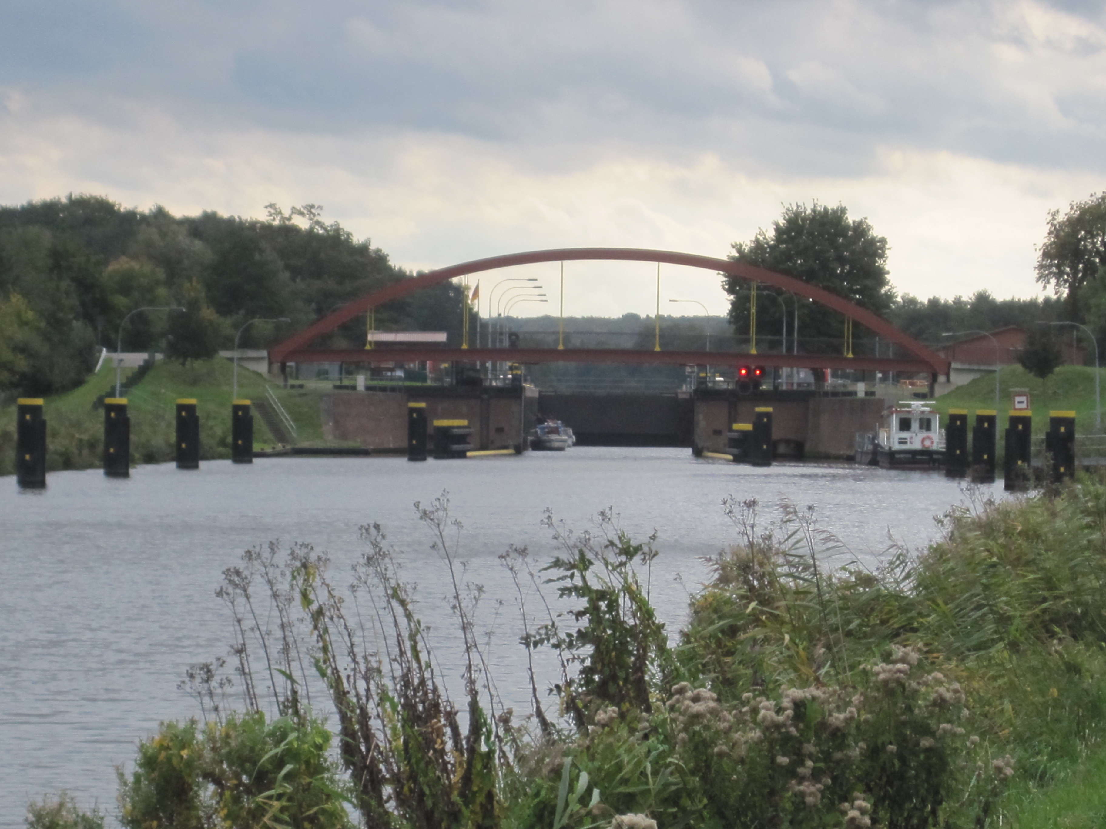 Donnerschleuse (Elbe-Lübeck-Canal)